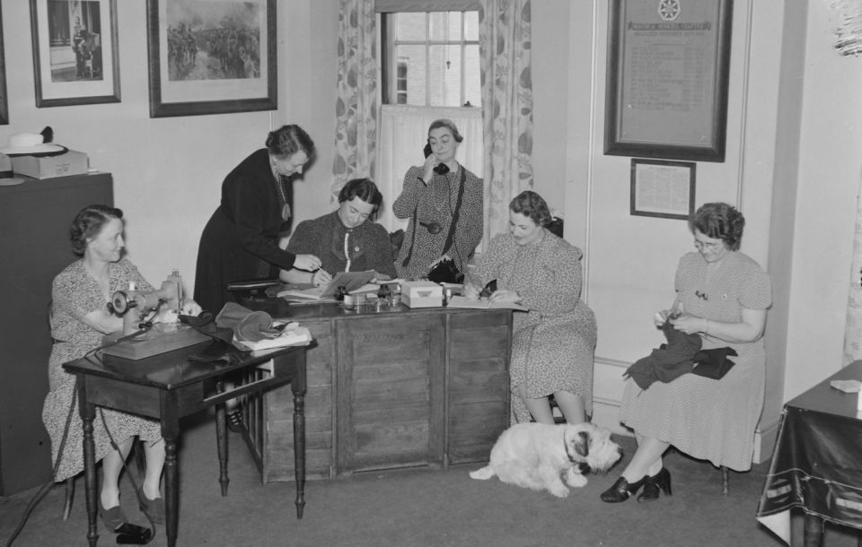 Members of the "Imperial Order Daughters of the Empire" (I.O.D.E.) sew, knit and do secretarial work. They participate in the war effort.